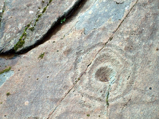 Cup and Ring marked stone at Achnbreck, Argyllshire This cup and ring marked stone forms one of a whole collection of similar markings at Achnabreck.